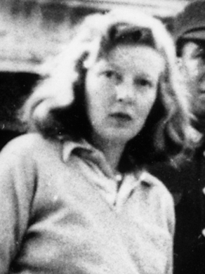 Martha Gellhorn, Chungking (Chongqing), China, 1941. Ernest Hemingway Photograph Collection, John F. Kennedy Presidential Library and Museum, Boston.